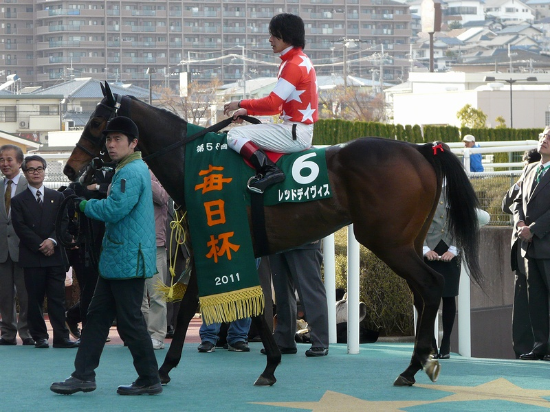 Red-Davis20110327